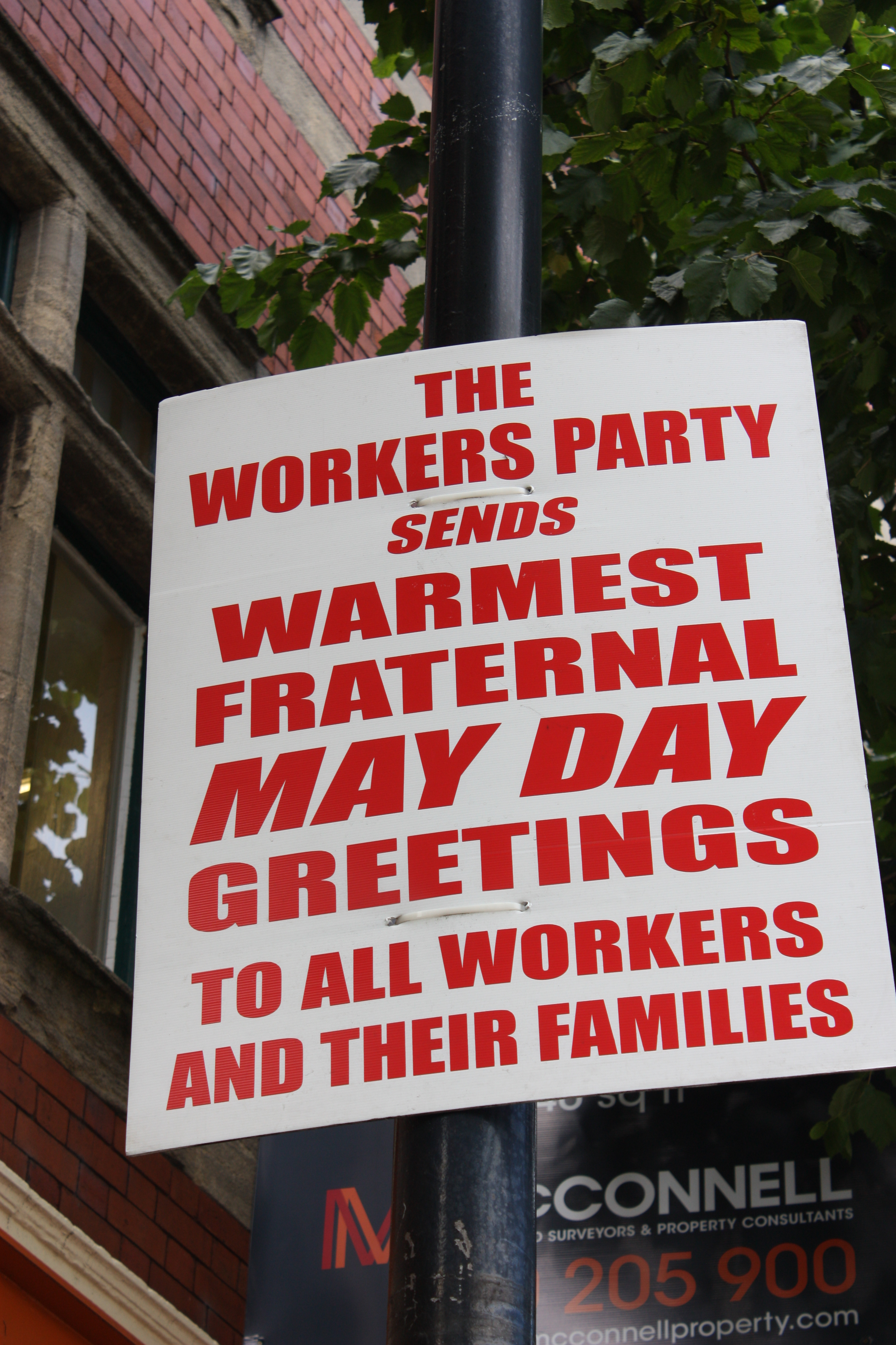 Workers Party poster, Donegall Street, Belfast, Northern Ireland, July 2010